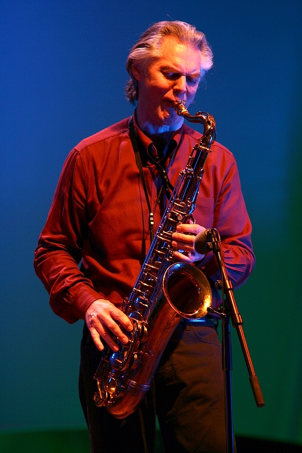 Jan Garbarek performing in Hasselt, Belgium - 2007